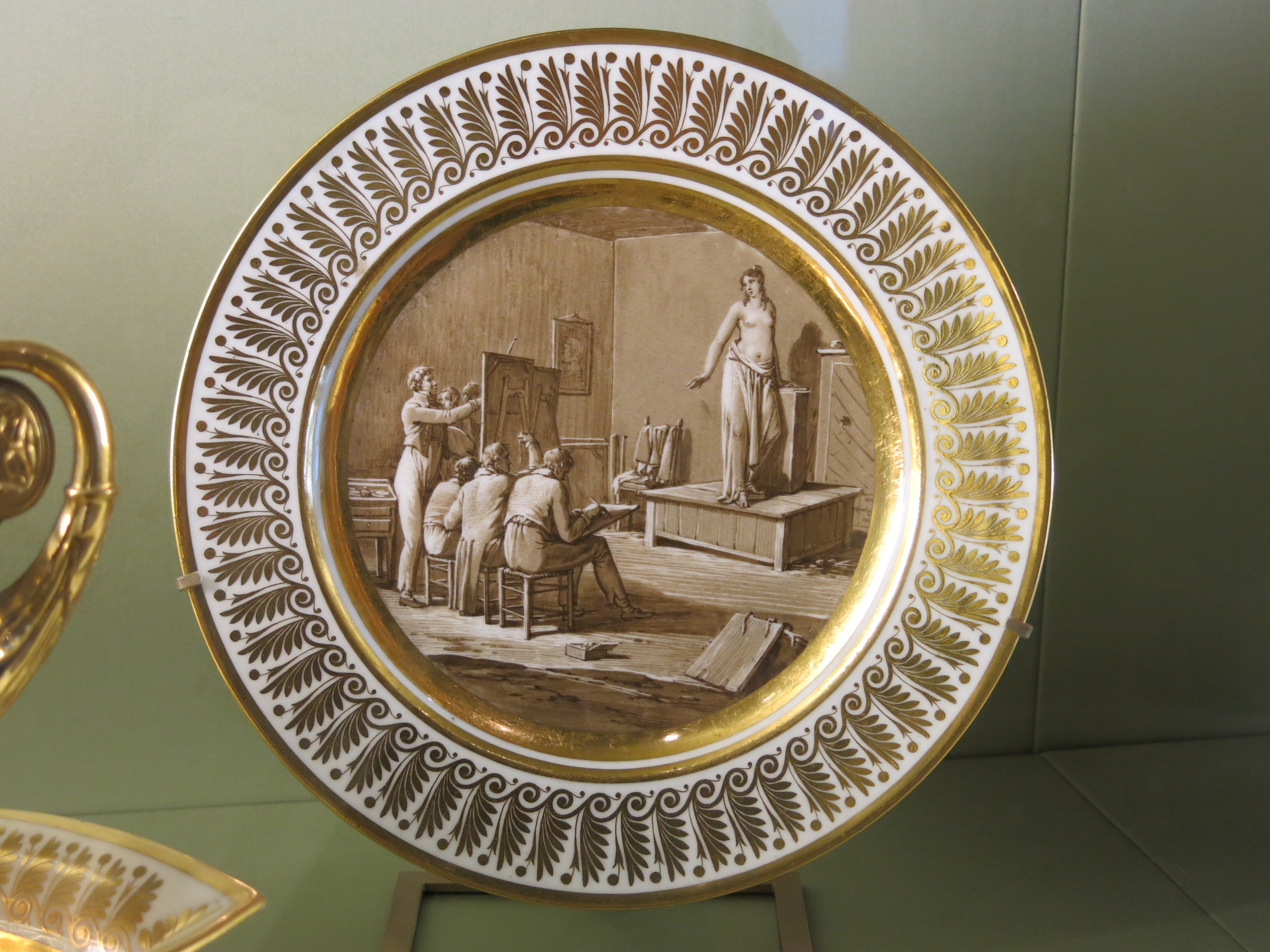 Plate of the encyclopedic service of the manufacture of Sèvres. The subject of this plate is probably the painting..